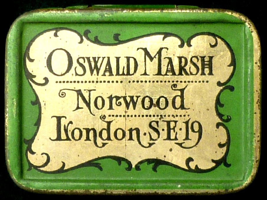 Oswald Marsh (a London stamp dealer) branded metal tin, probably used as a box for stamp hinges.